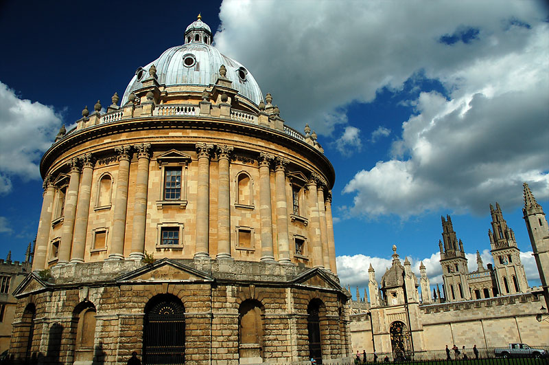 Radcliffe Camera(left) and All Souls College (right) at Oxford university.